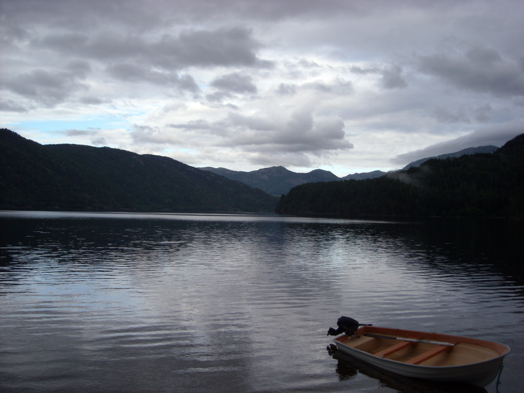 Next the Seljord's lake, in Norway.